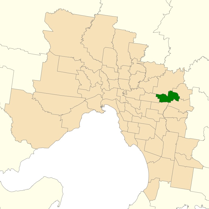 Location of the Victorian electoral district of Ringwood (dark green) in the Greater Melbourne area.